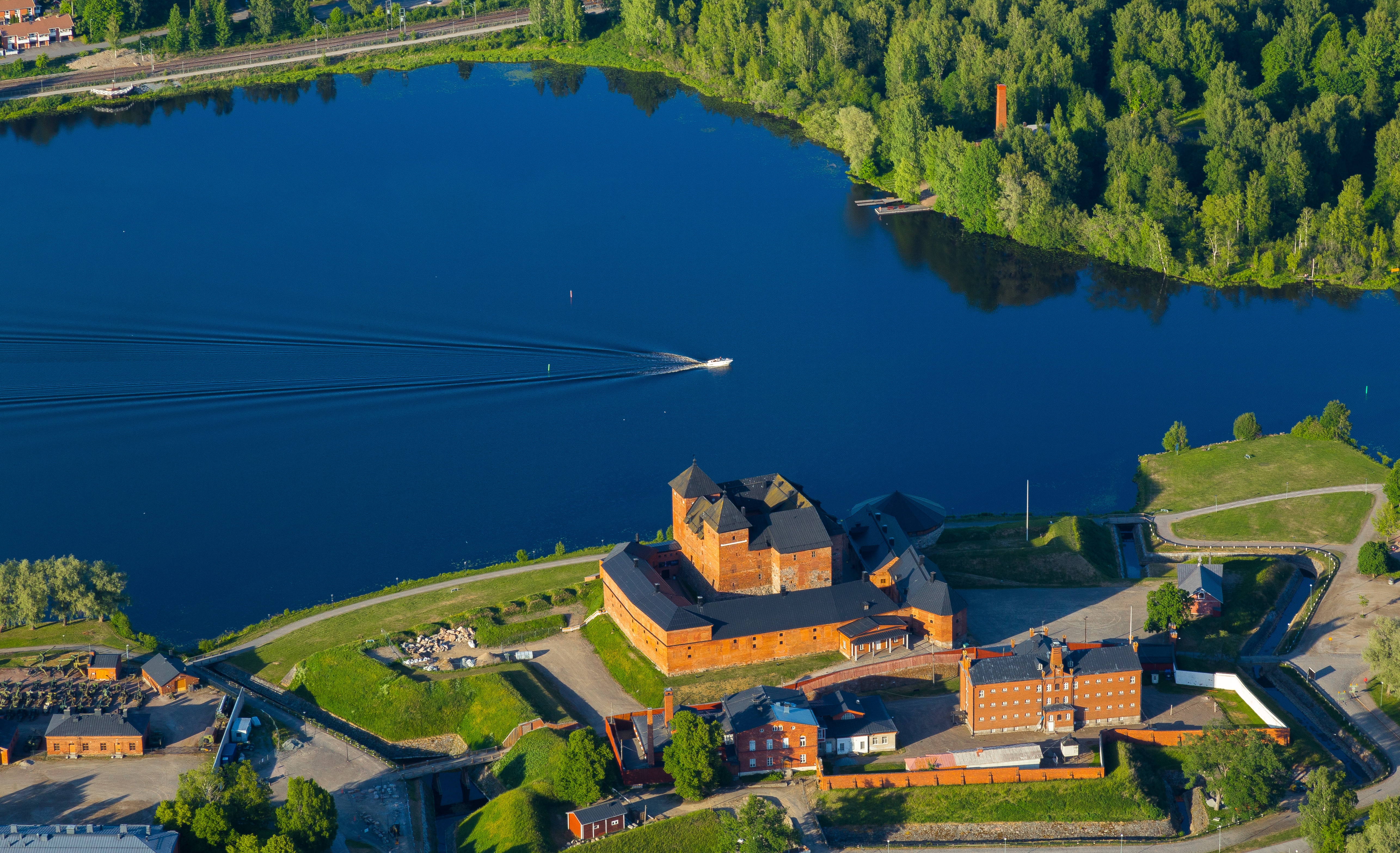 Lake Vanajavesi and Häme Castle in Hämeenlinna, Finland from air